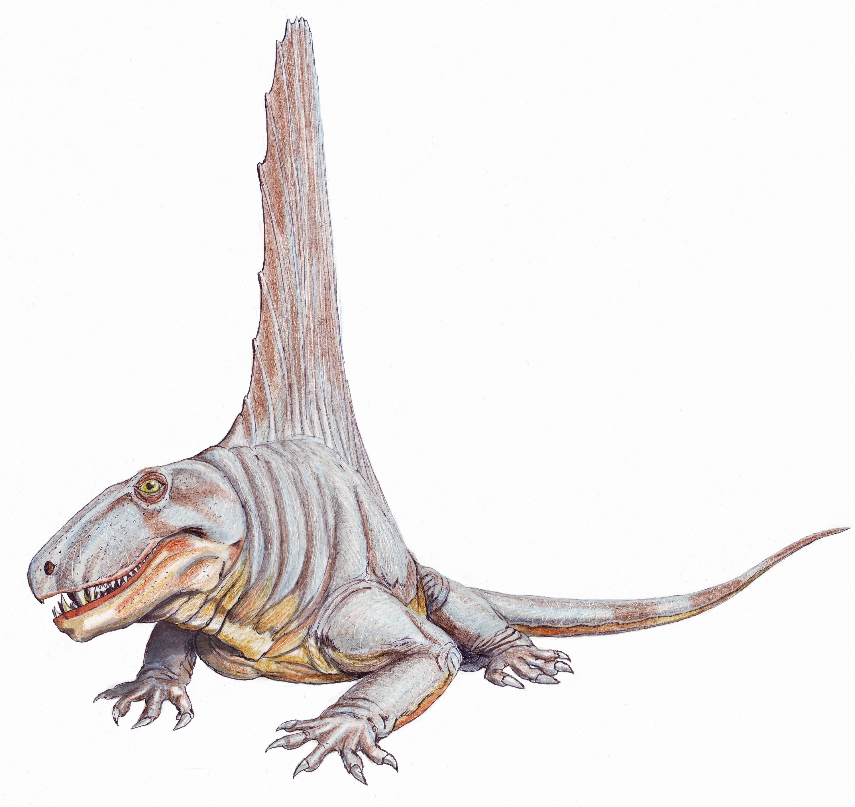 Dimetrodon angelensis - giant sphenacodont from Middle Permian of North America.